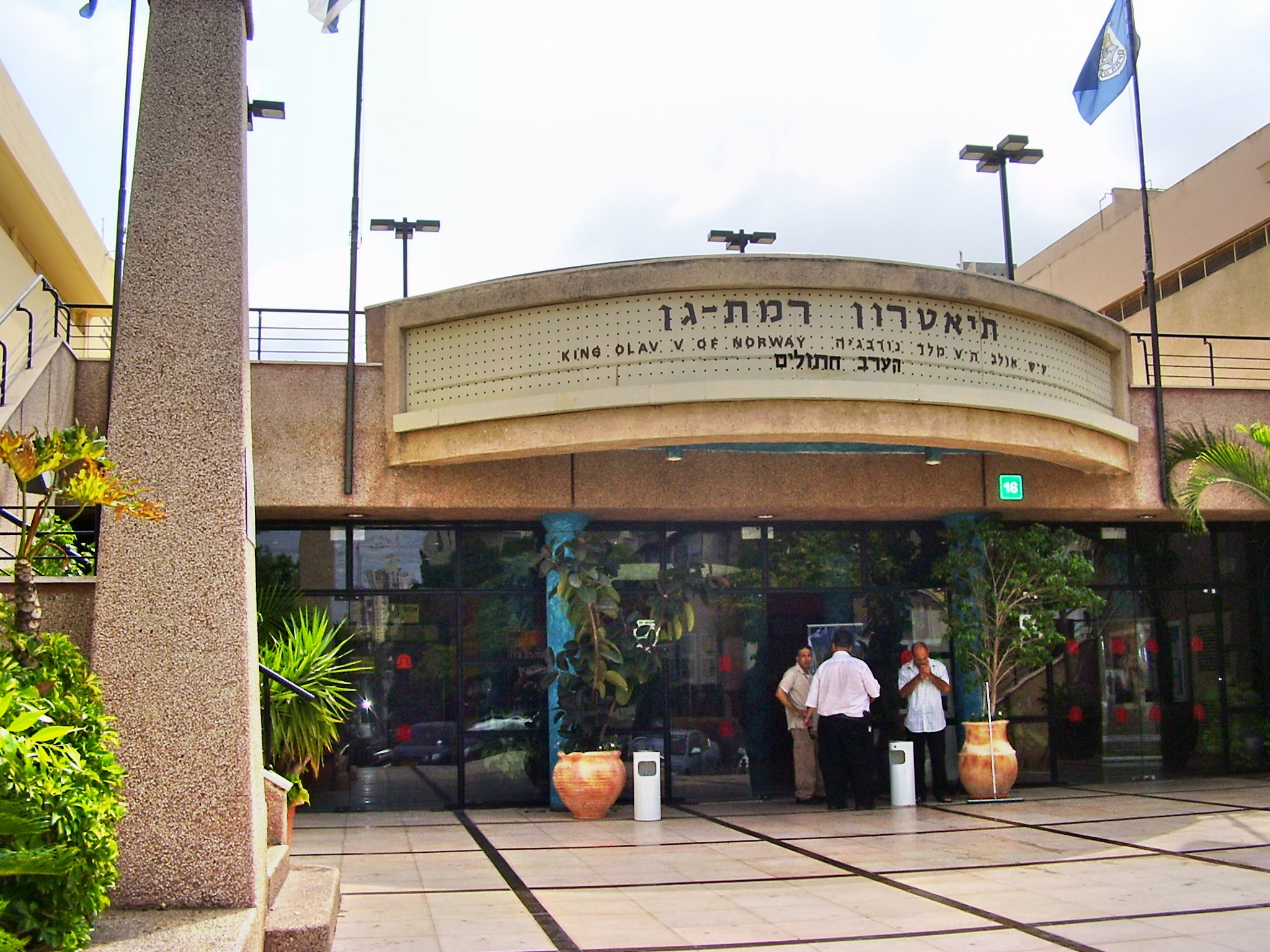 Ramat Gan Theatre, Israel